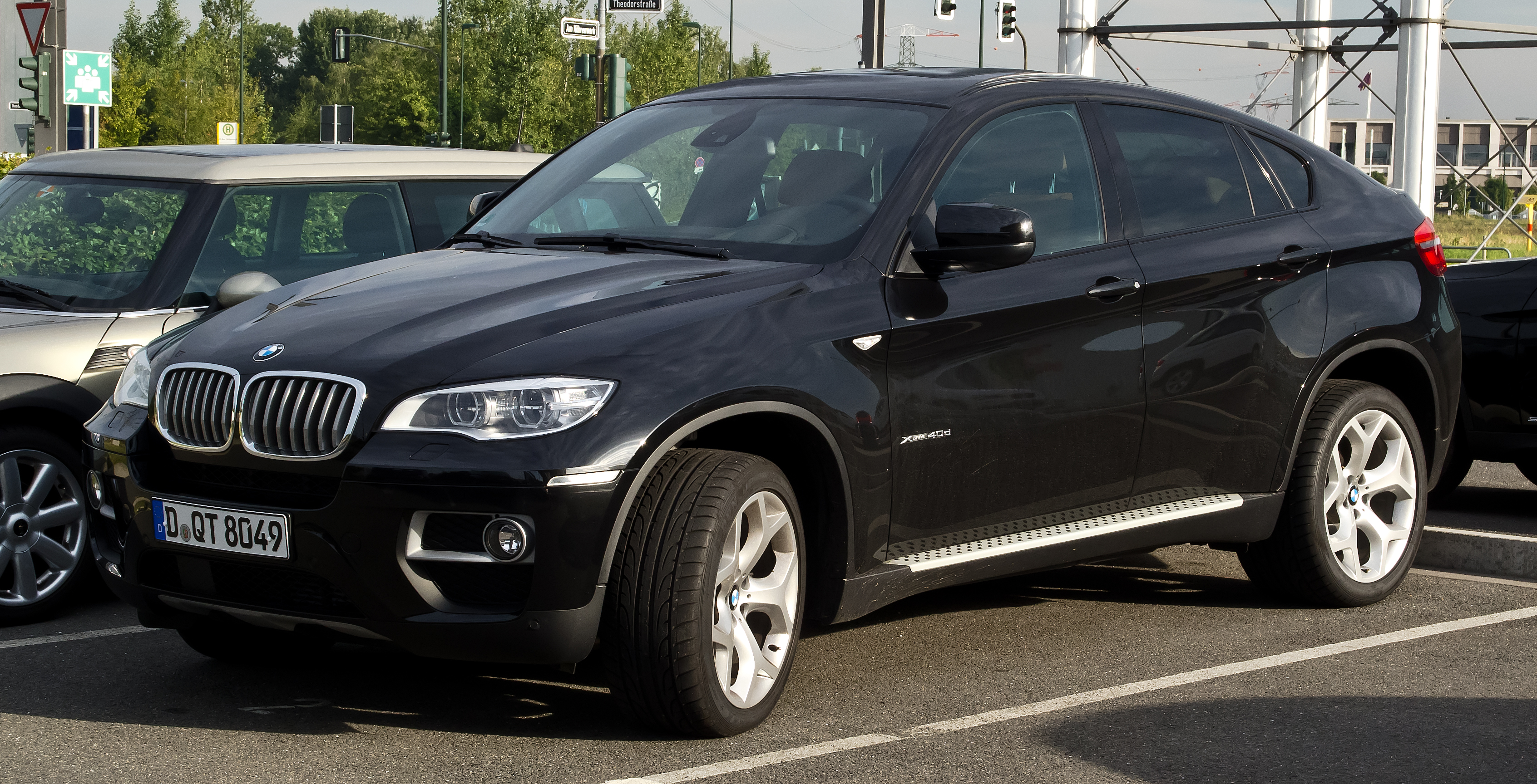 BMW xDrive40d (E71, Facelift)